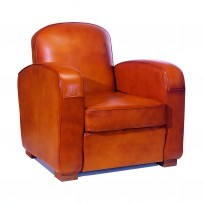 club chair